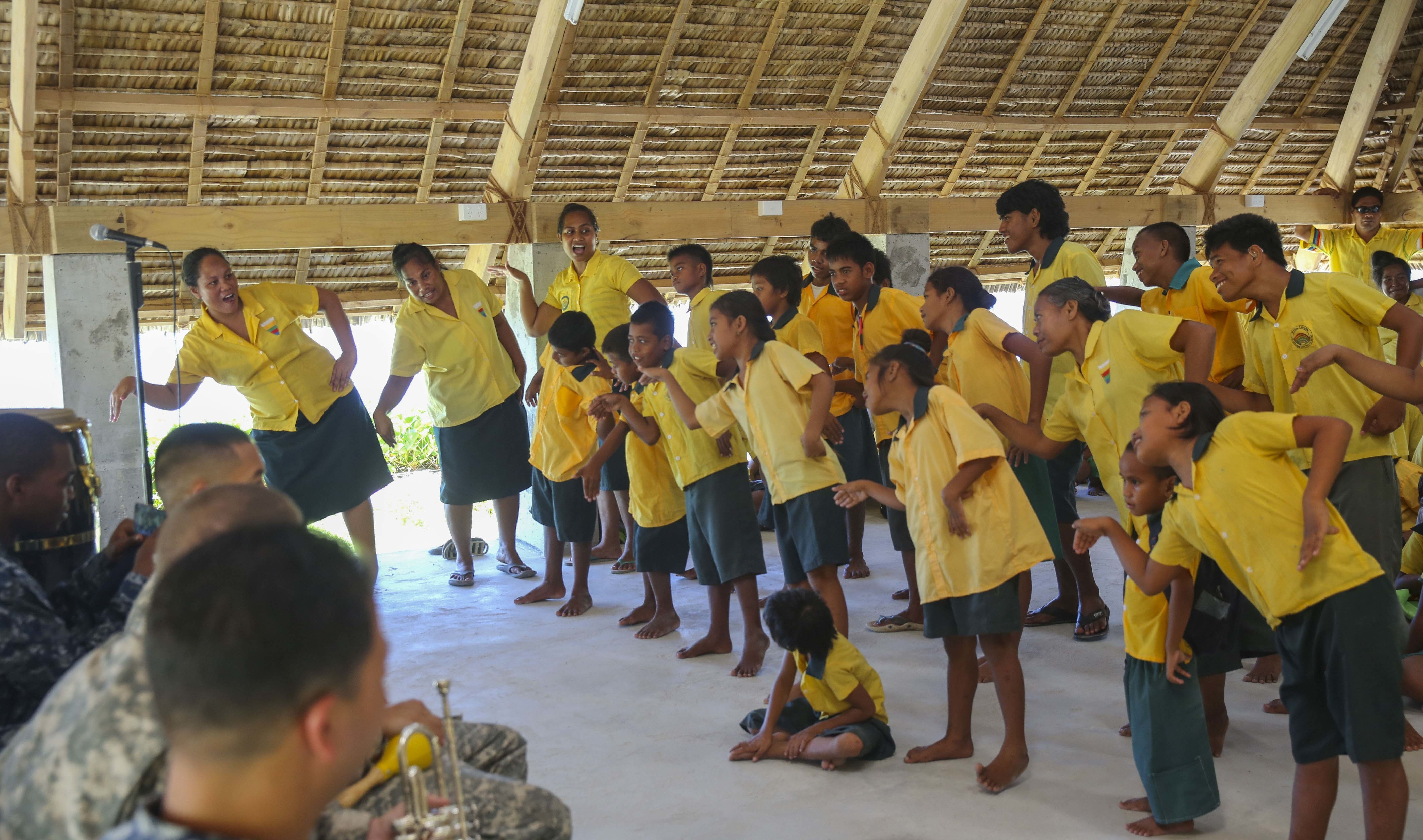 150608-M-GO800-004 KIRIBATI (June 8, 2015) – Students from the School and Center for Children with Disabilities perform “I’m a Little Teapot” for the Pacific Partnership Joint Band June 8. The event gave the children a chance to interact with members of the Army Band Hawaii and Pacific Fleet Band embarked aboard Joint High Speed Vessel USNS Millinocket (JHSV 3). Millinocket is serving as the secondary platform for Pacific Partnership, led by an expeditionary command element from the Navy’s 30th Naval Construction Regiment (30 NCR) from Port Hueneme, Calif. Now in its 10th iteration, Pacific Partnership is the largest annual multilateral humanitarian assistance and disaster relief preparedness mission conducted in the Indo-Asia Pacific Region. While training for crisis conditions, Pacific Partnership, missions have provided medical care to approximately 270,000 patients and veterinary service to more than 38,000 animals. Additionally, Pacific Partnership has provided critical infrastructure development to host nations through the completion of more than 180 engineering products. (U.S. Marine Corps photo by combat correspondent Sgt. James Gulliver/Released)